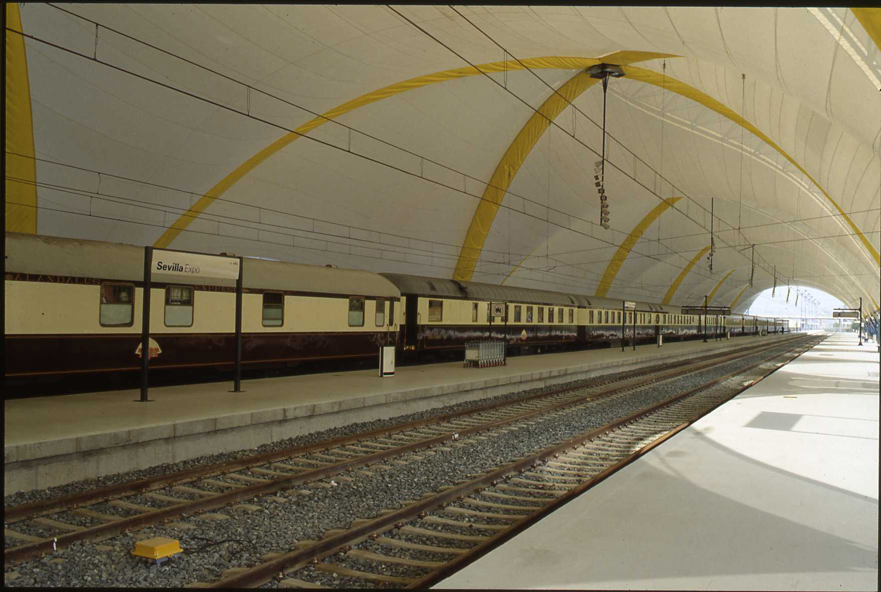 Temporary station "Sevilla expo" for the 1992 exposition. In the background are Al Andalus Express coaches. A luxury cruise train.